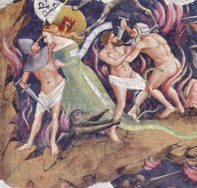 Orcagna, Triumph of Death, Santa Croce, Florence, detail